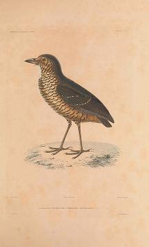 Grallaria squamigera in Voyage autour du monde sur la frégate la Vénus. Atlas de Zoologie. 1846